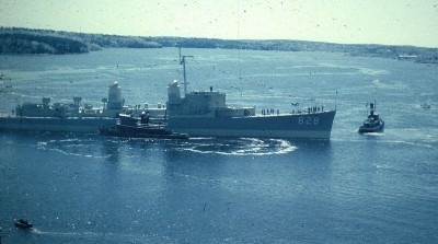 The U.S. Navy destroyer USS Timmerman (DD-828), on the day it was launched at Bath Iron Works, Maine (USA), 19 May 1951. View is from the Carlton Bridge, looking south down the Kennebec River.